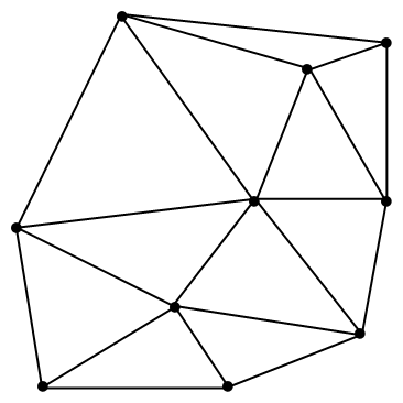 A Delaunay triangulation based on the points in Delaunay_points.png.